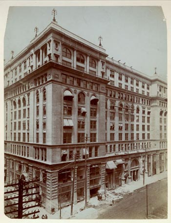 Century Building in 1897. Missouri Historical Society, St. Louis. Photograph dated before 1923, so it may in the public domain if it was published before 1923.